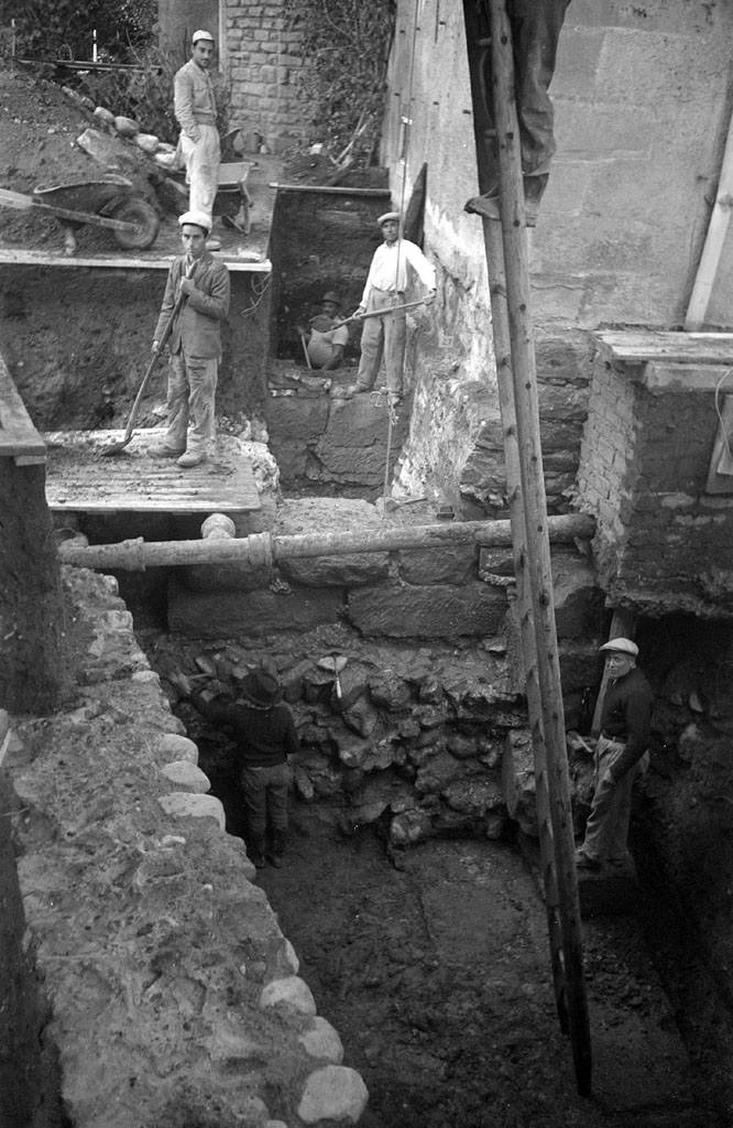 Excavation 1961, Northgate Arbon castle (CH).